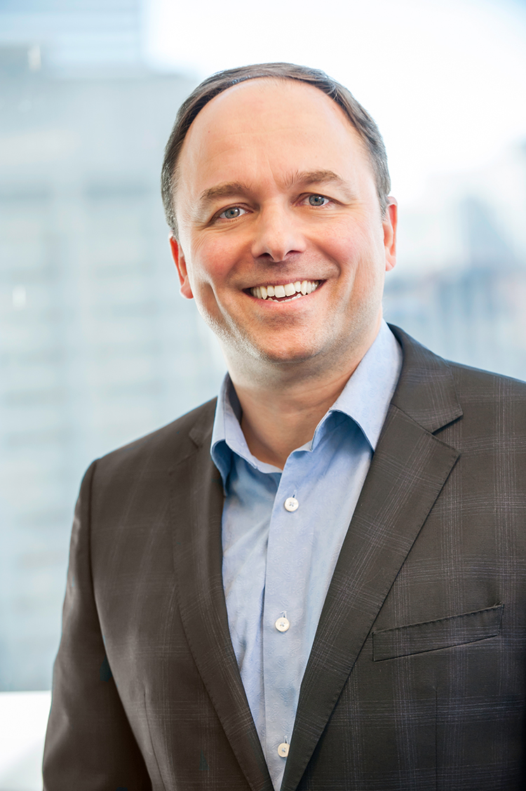 Best Selling Author, Business Leader